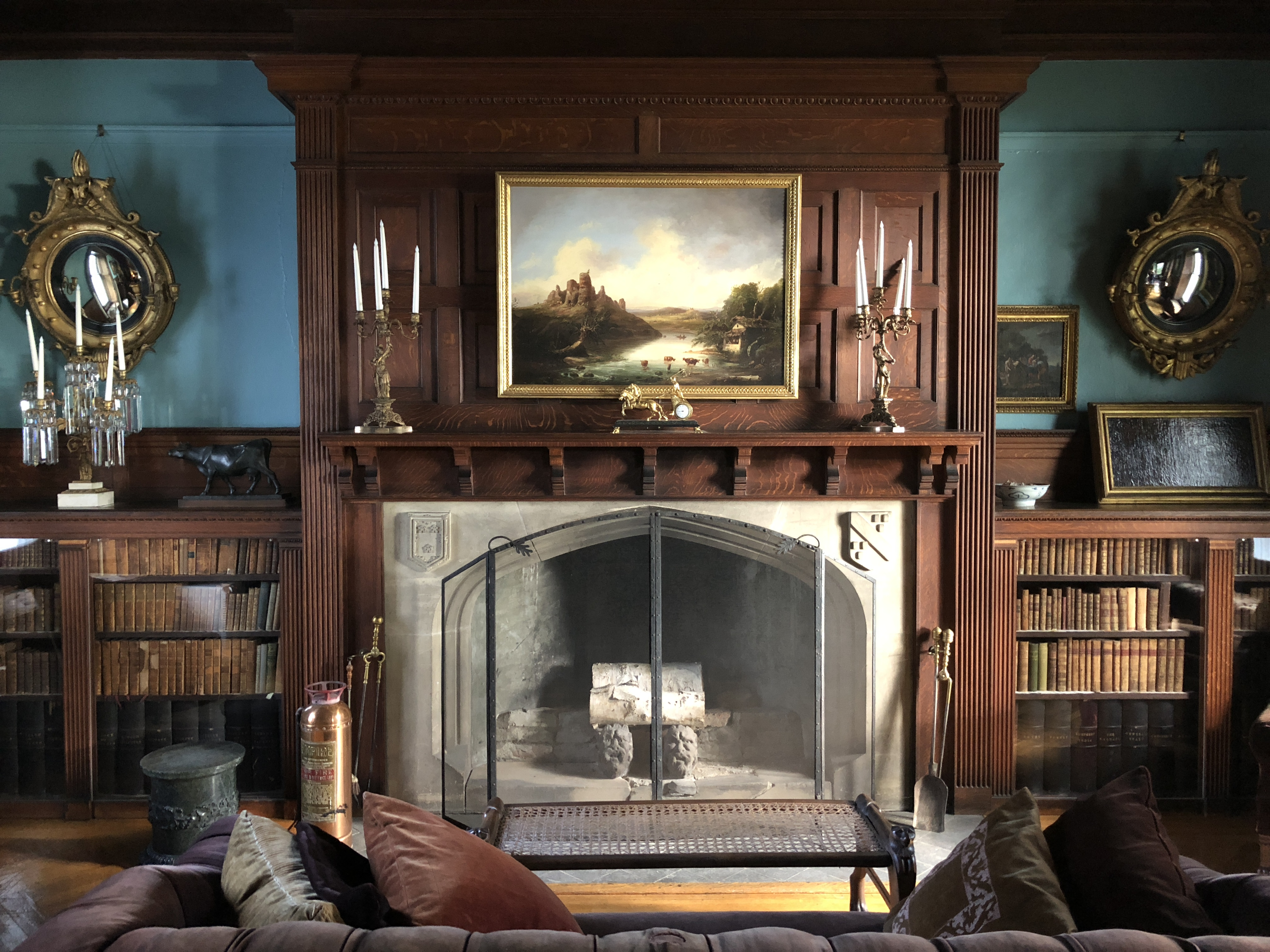 John Henry Livingston's addition.